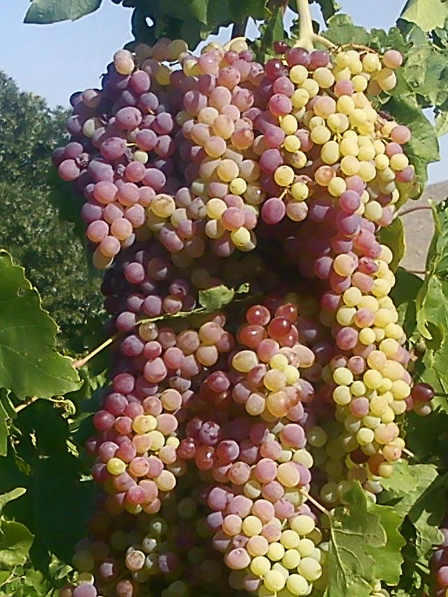 Абхар- Иран